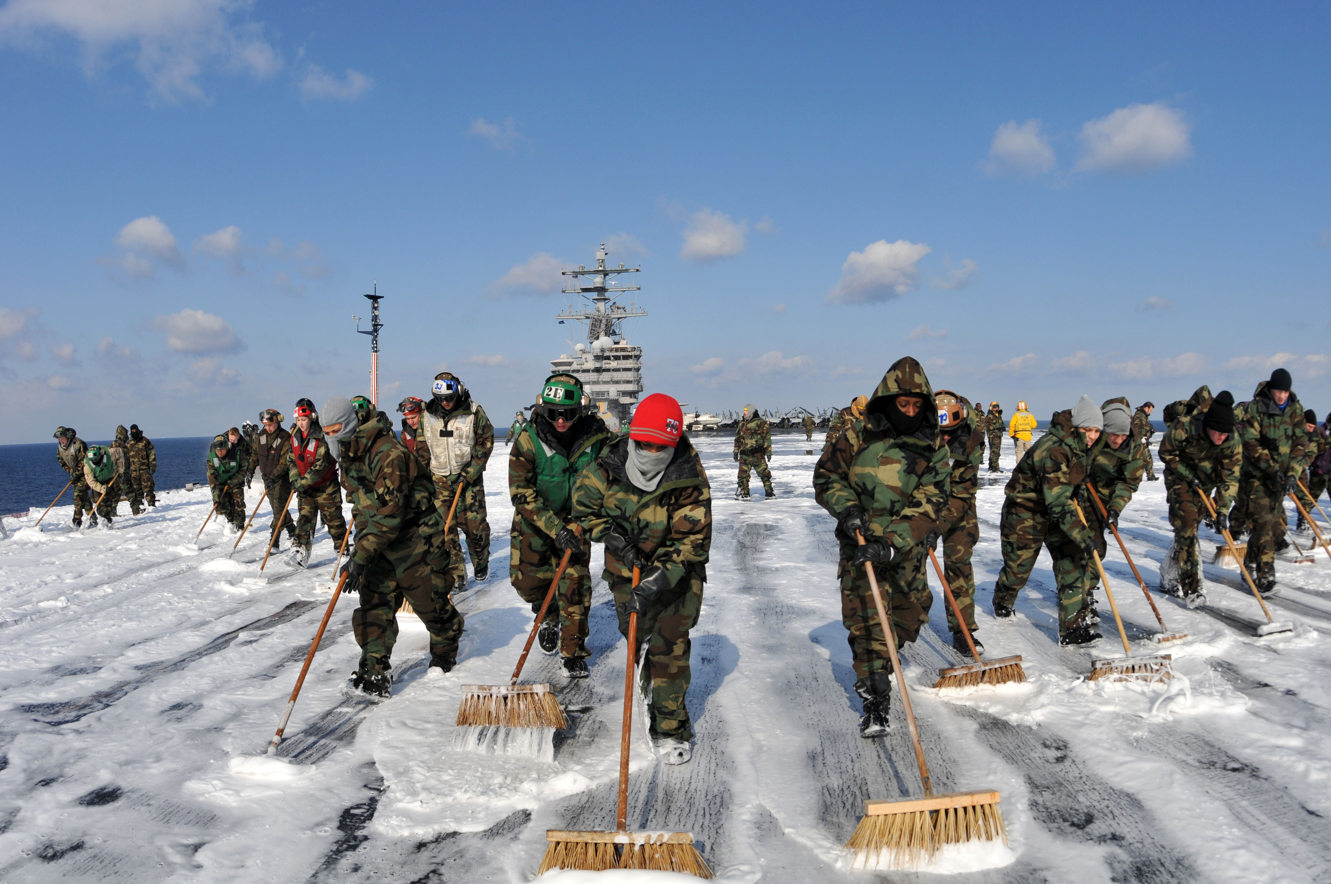 PACIFIC OCEAN (March 22, 2011) Sailors aboard the aircraft carrier USS Ronald Reagan (CVN 76) conduct a countermeasure wash down on the flight deck. Sailors scrubbed the external surfaces on the flight deck and island superstructure to remove potential radiation contamination. Ronald Reagan is operating off the coast of Japan providing humanitarian assistance as directed in support of Operation Tomodachi. (U.S. Navy photo by Mass Communication Specialist Seaman Nicholas A. Groesch/Released)